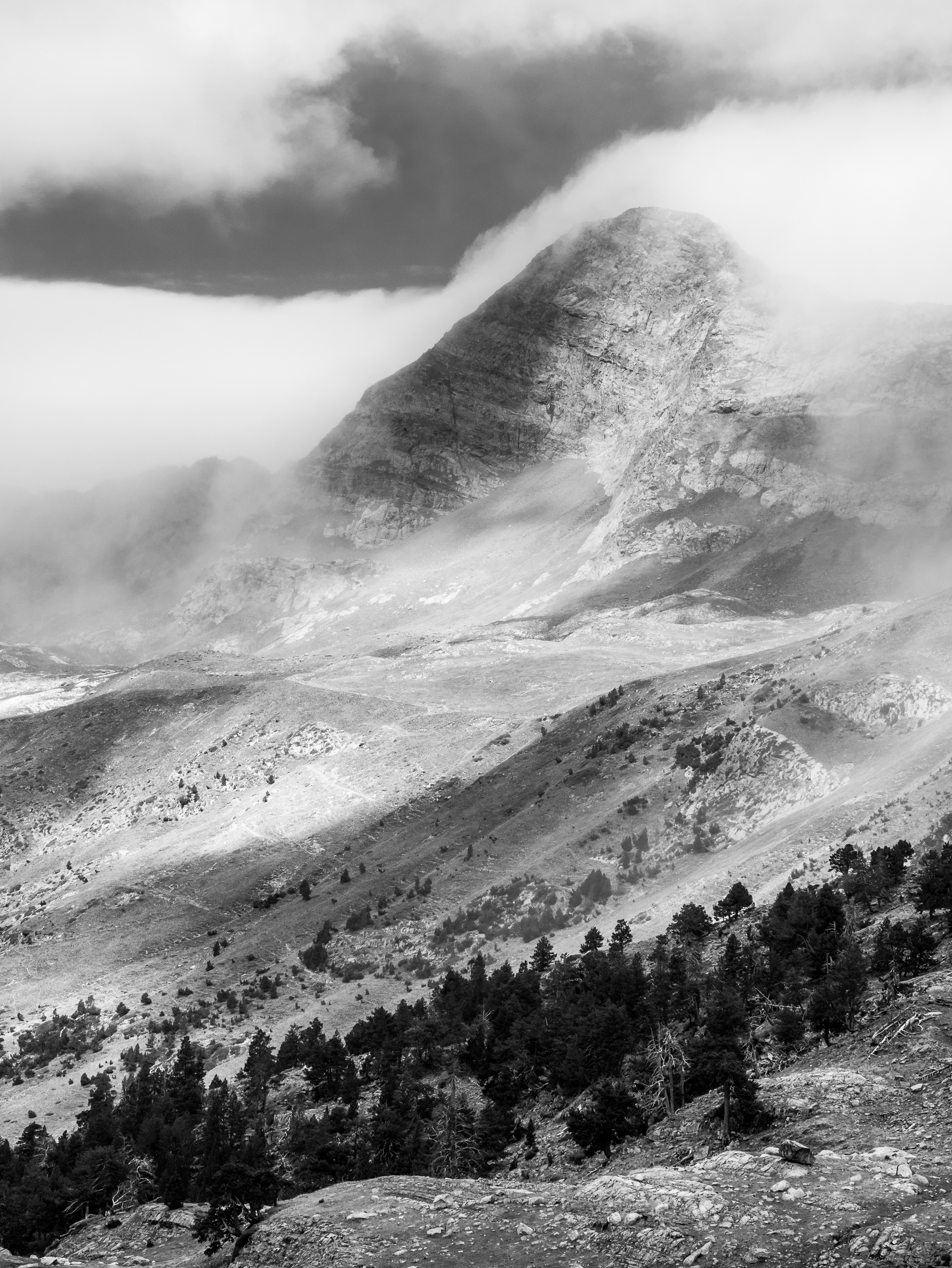 Summit Pico de la Mina (2708 m), as seen from Forau de Aigualluts. Huesca, Aragon, Spain